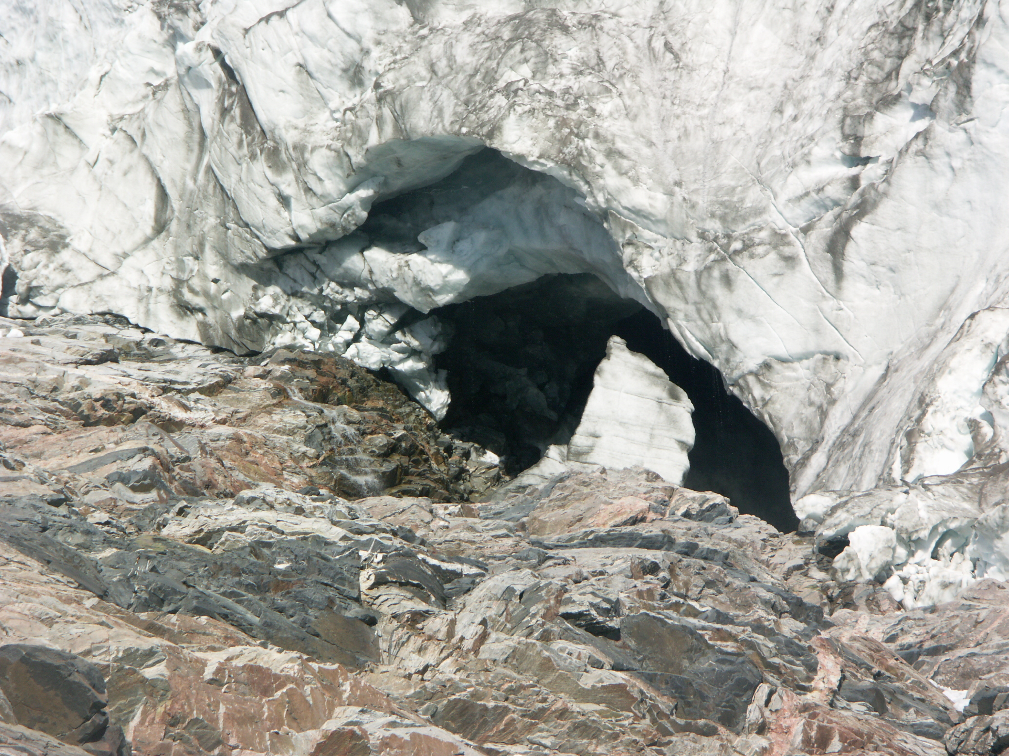 Glacier base cave, Russell Glacier, Greenland